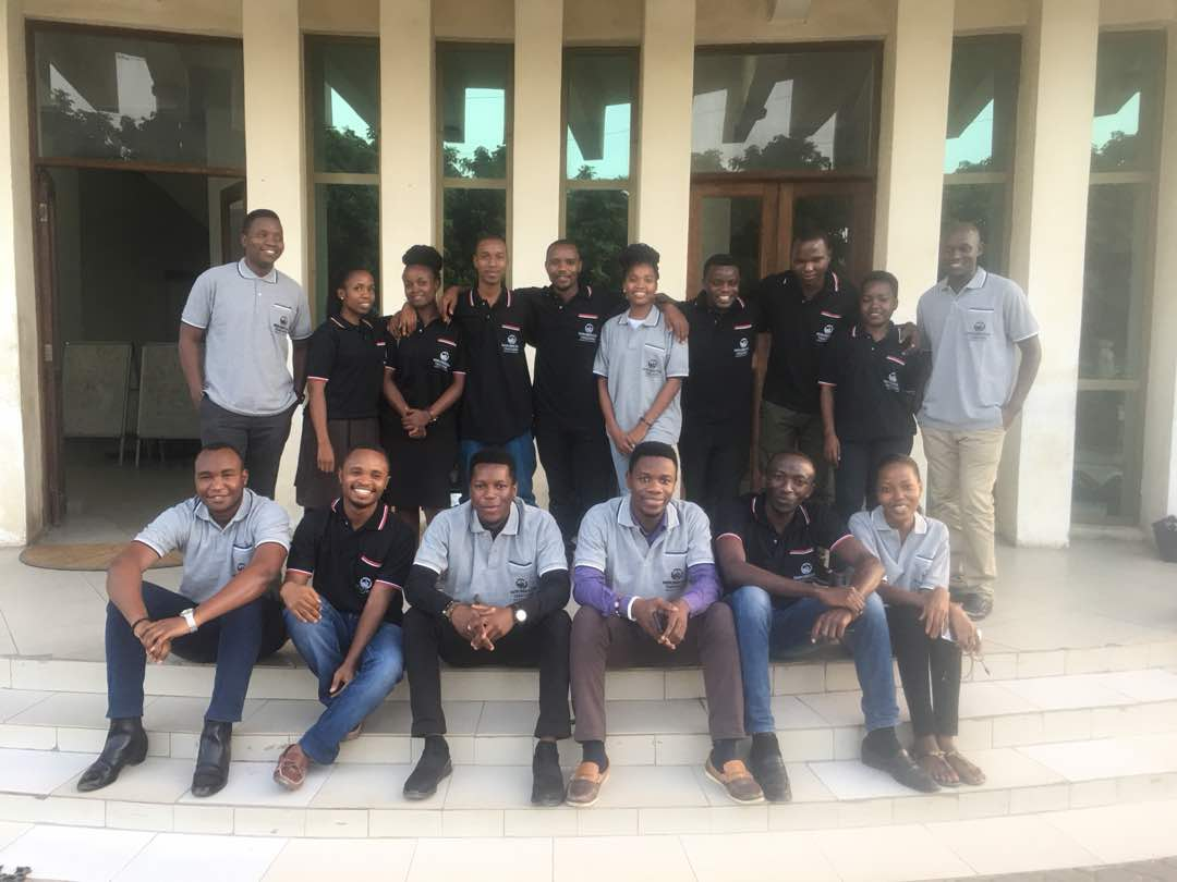 This group photo was taken at the end of the session of Wikipedia Editathon in Tanzania with the focus of Creating Wikipedia awareness in Tanzanian Community